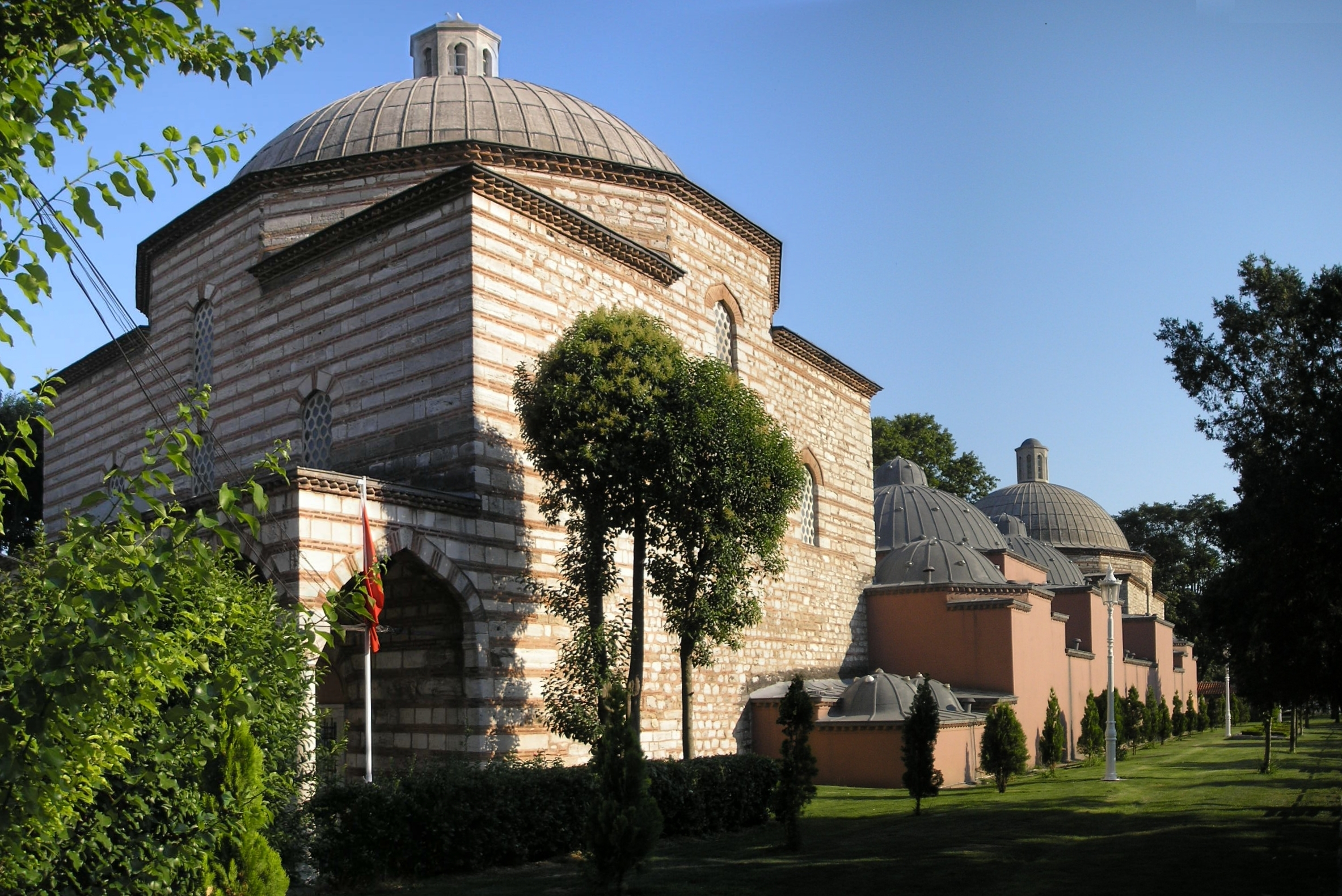 The turkish bath (hamam) constructed by architect "Mimar Sinan" with the order of Sultan Suleiman the Magnificient for his wife Haseki Hürrem Sultan, known in the West as Roxelana or Roxelane. Located in Istanbul close to the Hagia Sophia.